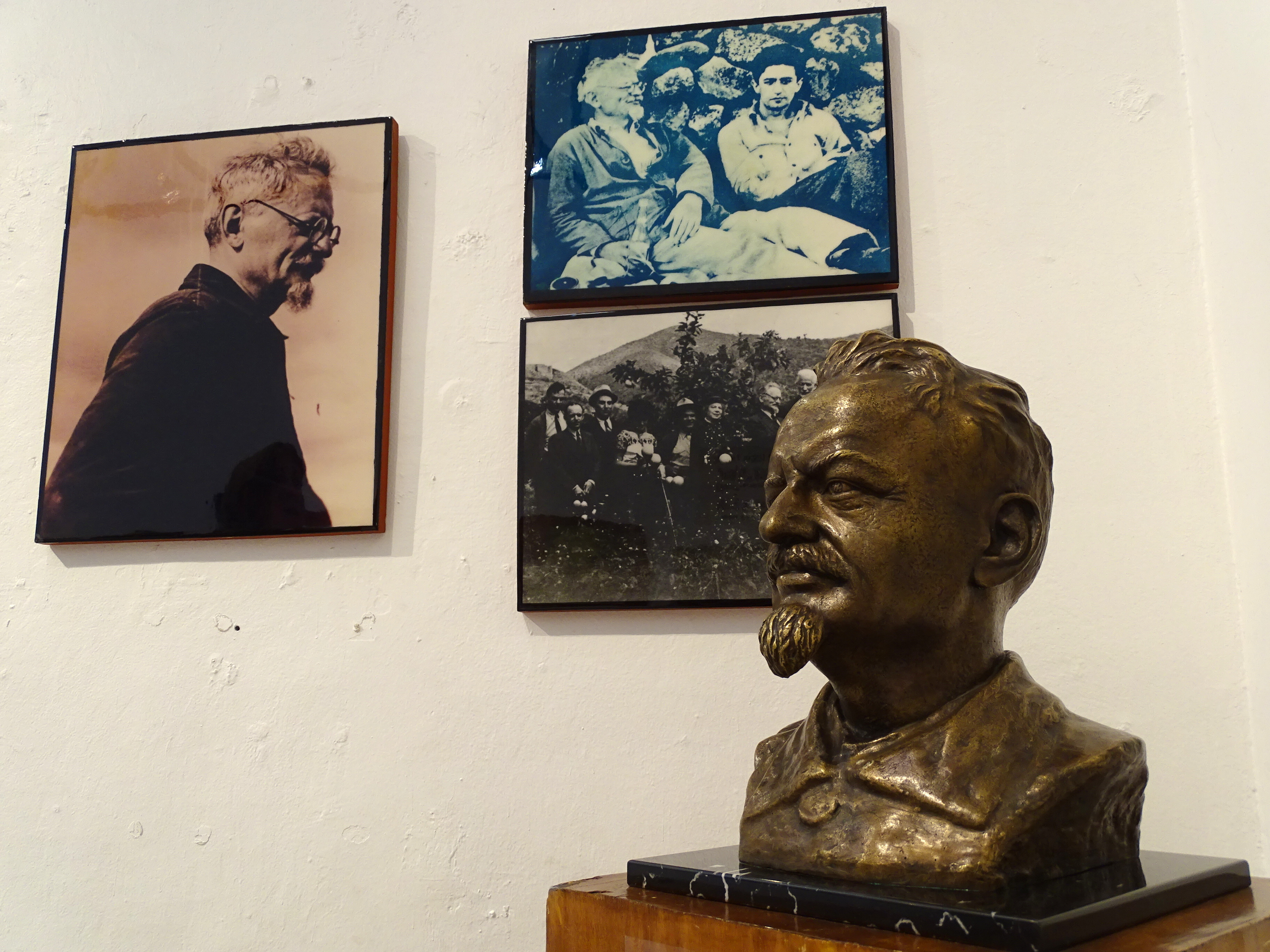 Trotsky Bust (by Duncan Ferguson) with Photos - Leon Trotsky Museum - Coyoacan - Mexico City - Mexico